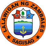 Provincial seal of the province of Zambales, Philippines.